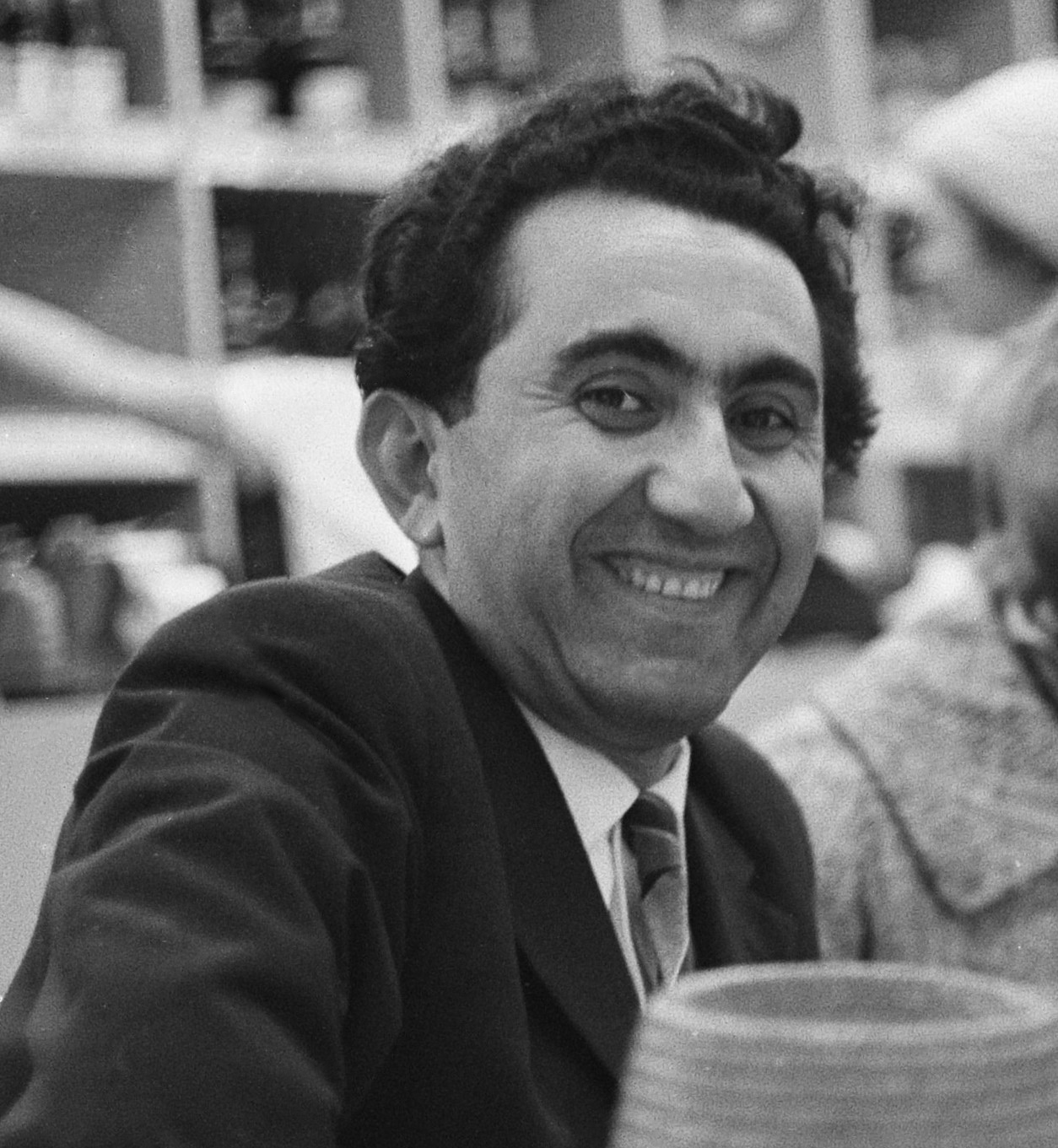 Tigran Petrosian, in 1962